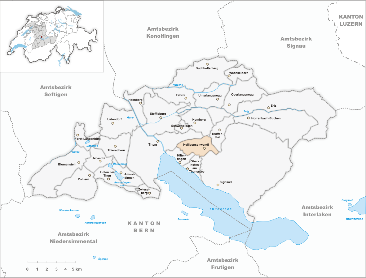 Municipality Heiligenschwendi